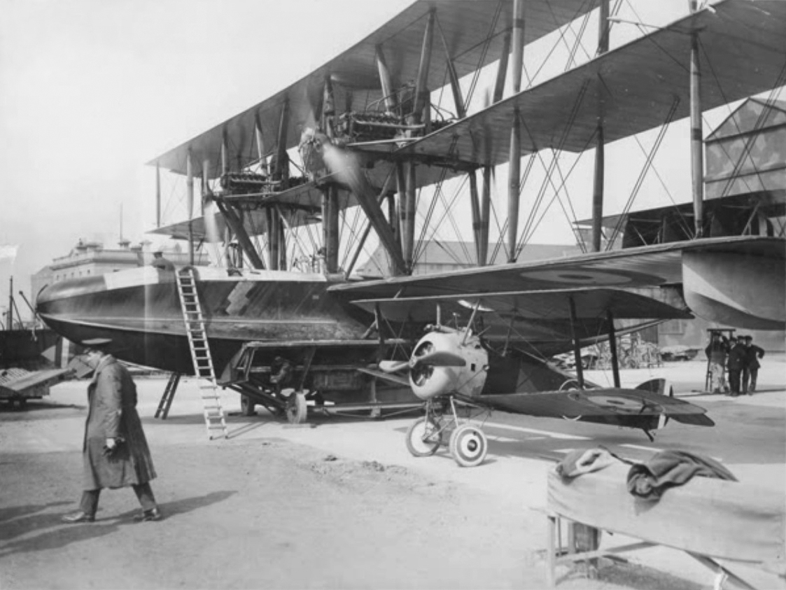 Photograph of the Felixstowe Fury and a Sopwith Camel